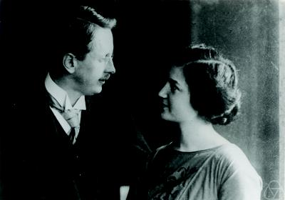 Hermann Weyl (left) and Helene Weyl (right)